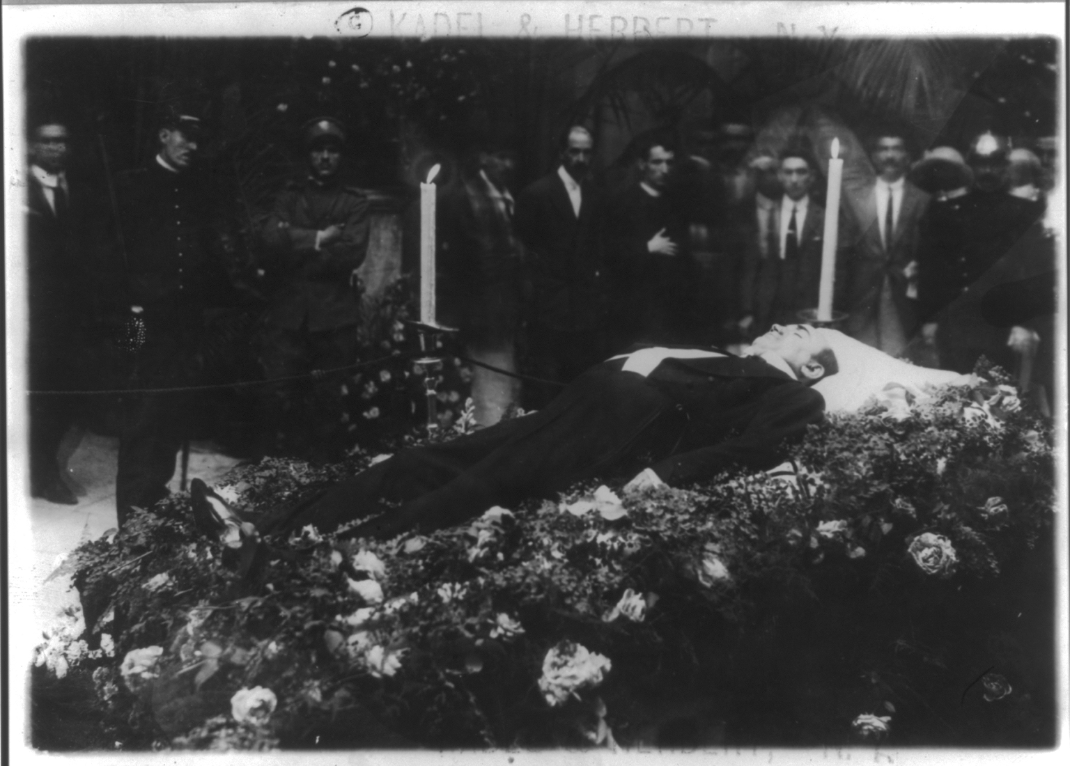 Enrico Caruso, 1873-1921, funeral at Church San Francisco de Paulo in Naples. Full-length view of body lying in state in Hotel Vesuvius.